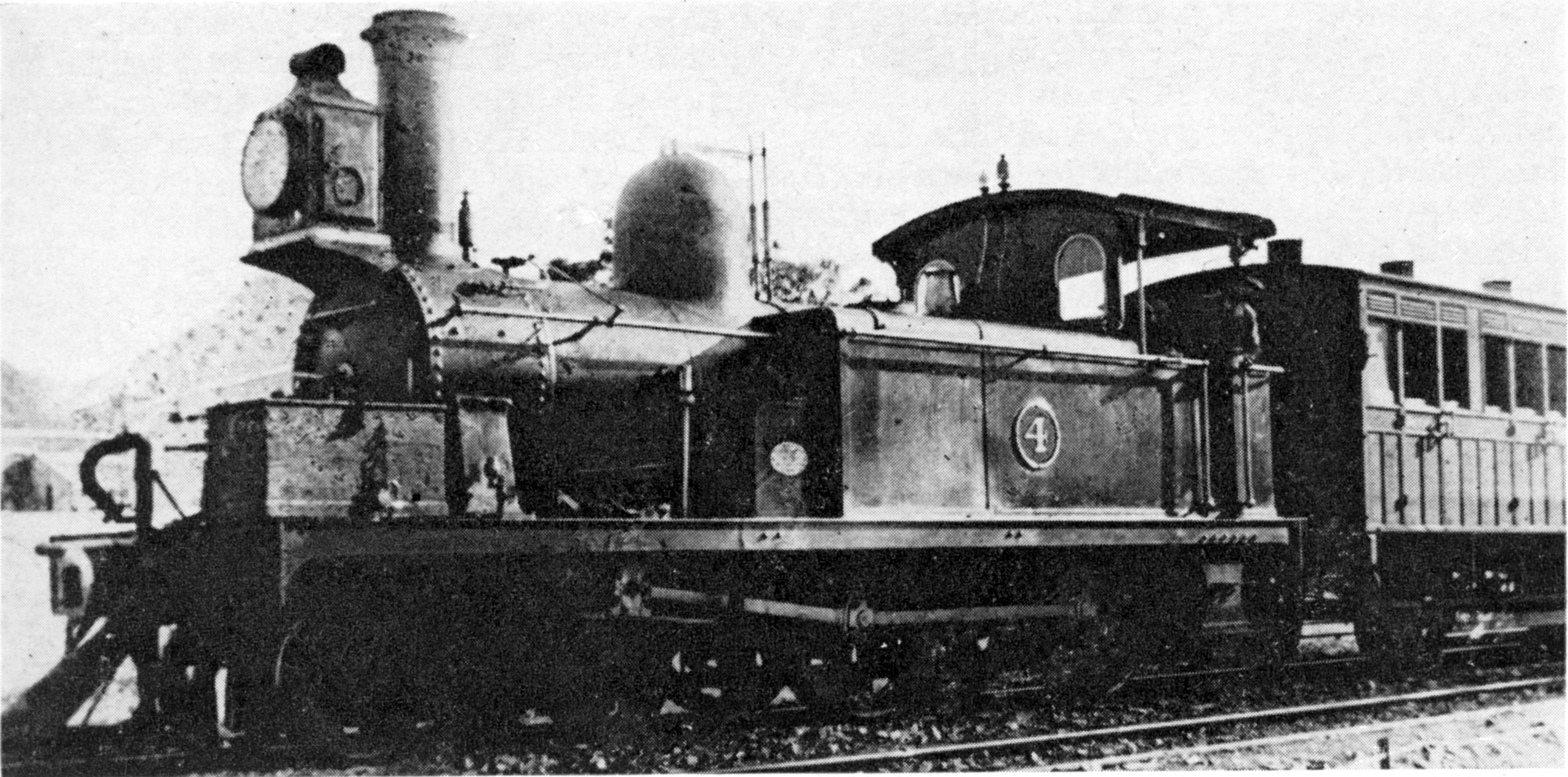 Cape Government Railways 1st Class 4-4-0T no. 4 (1875-1881 group) on the Metropolitan & Suburban Railway (Sea Point Line) in Cape Town